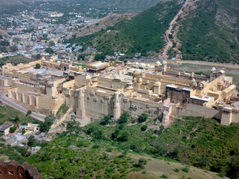 auther-brijesh,source-fly sl300m mobile camera